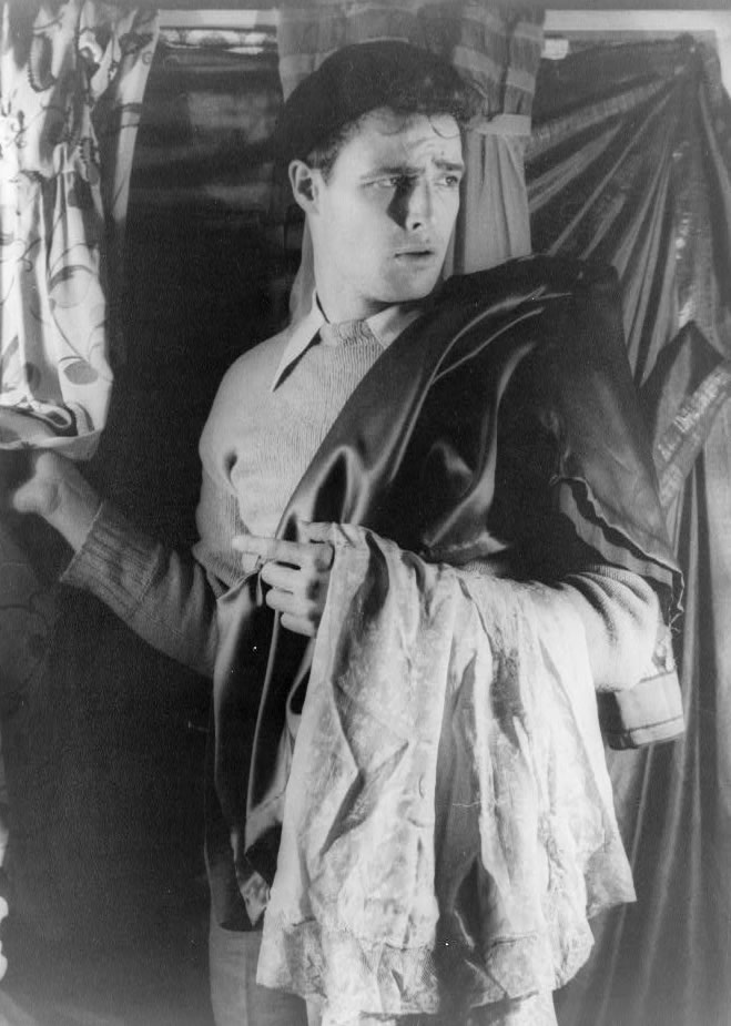 Portrait of Marlon Brando, "Streetcar Named Desire", 1948 Dec. 27.